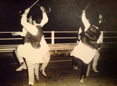 Dance culture of Libya. The city of Al Bayda in 1979 on the Wadi el Kuf Bridge.